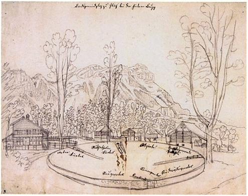 Ring zu Ibach SZ, Schweiz